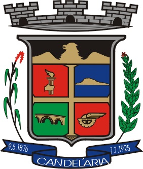 Coat of arms of the city of Candelária, Rio Grande do Sul, Brazil.